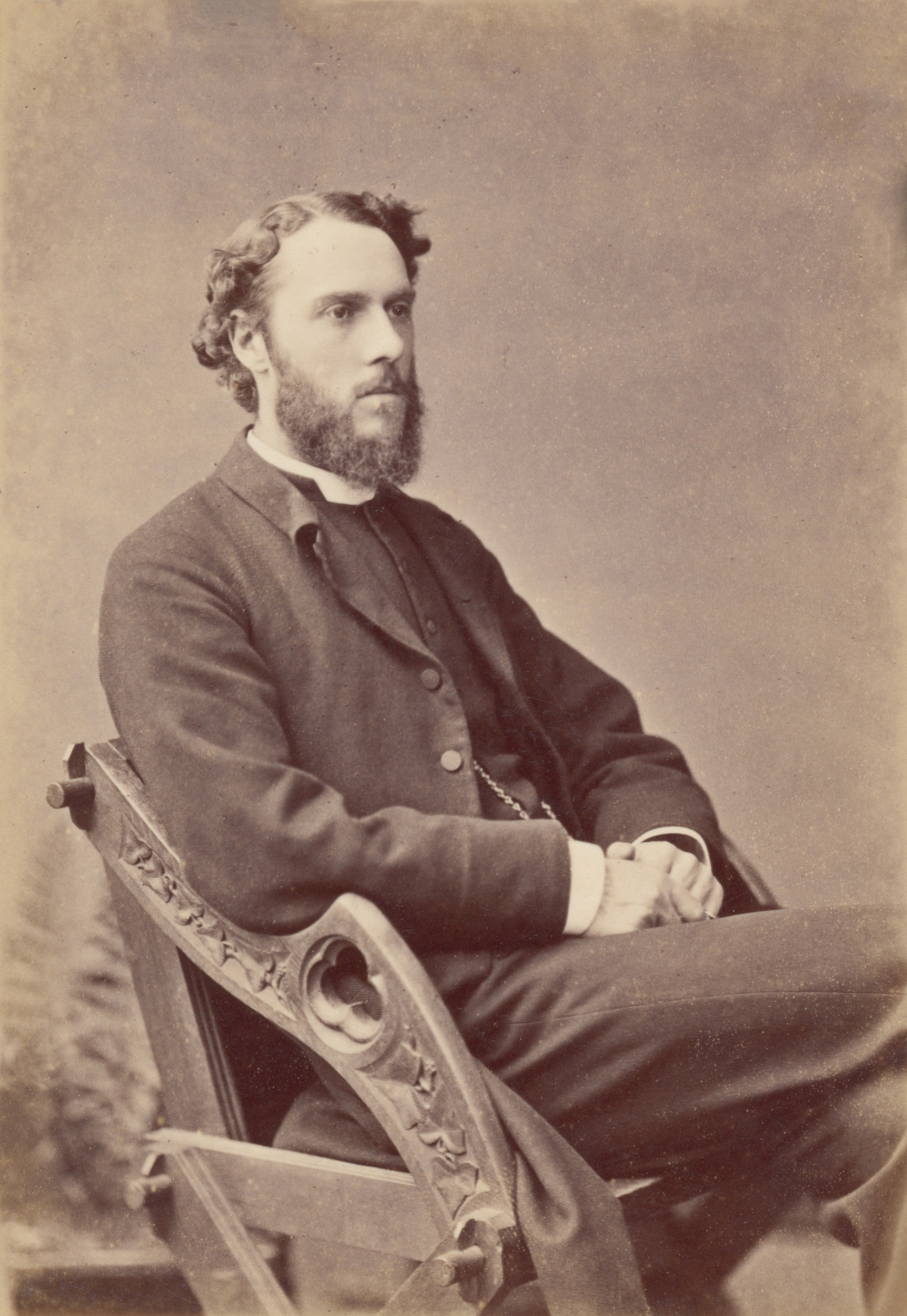 Arthur Lyttelton shortly after his marriage in 1880